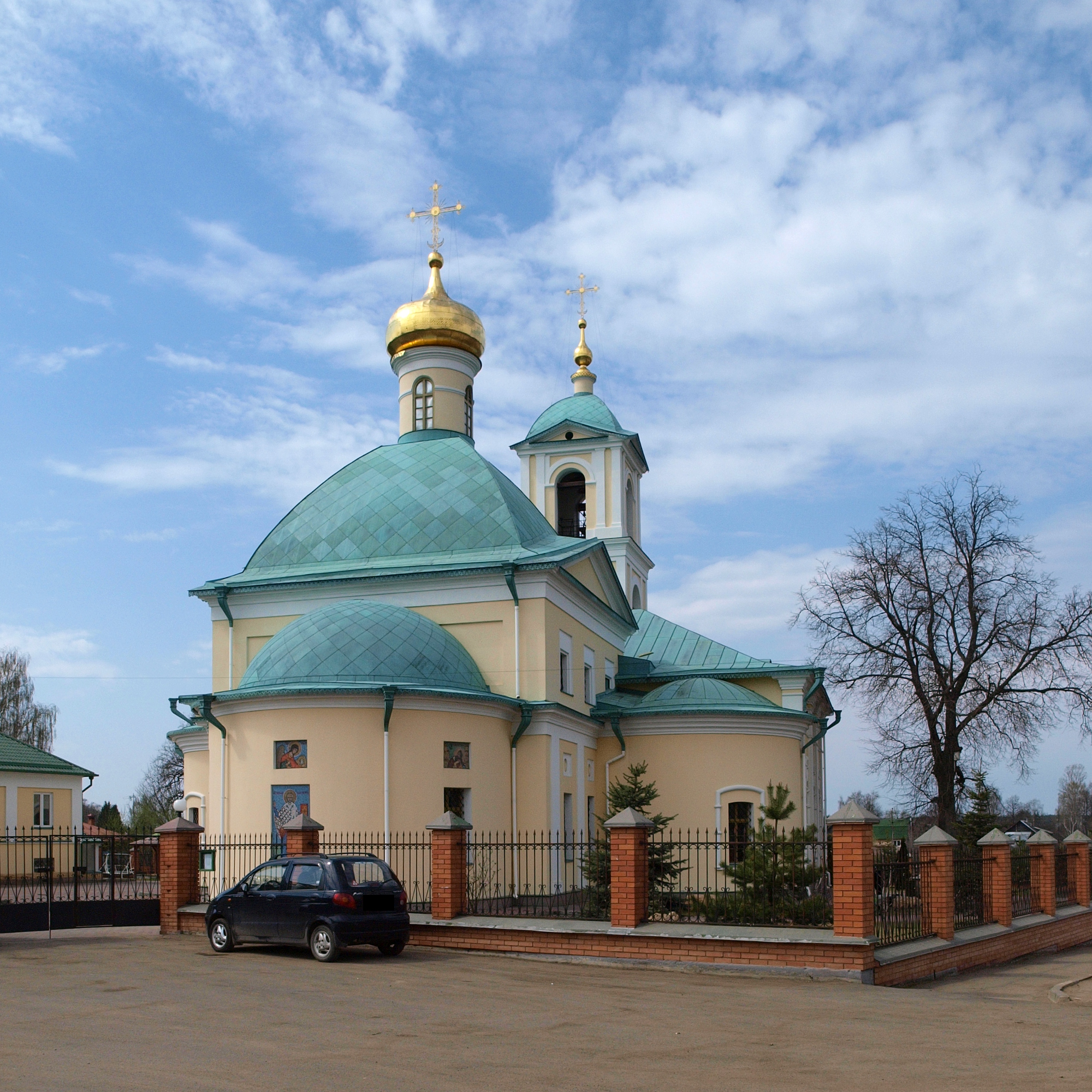 St. Nicholas church (built 1805-1806), Nikolskoe, Odintsovsky District, Moscow Oblast, Russia.